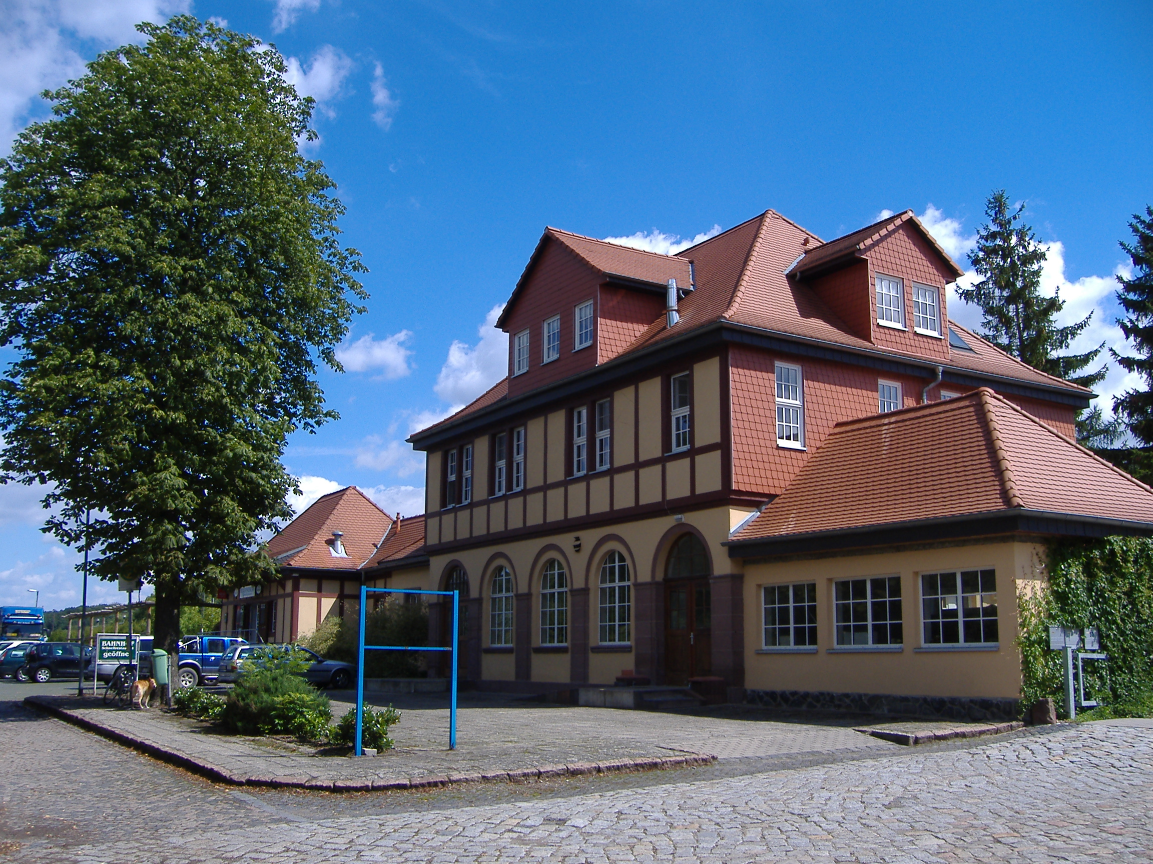 main station in Wippra (Saxony-Anhalt, Germany)